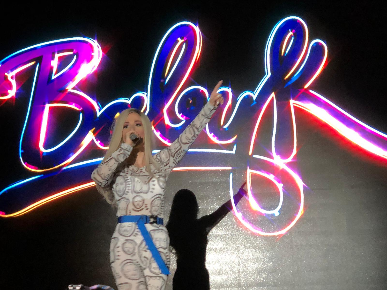 Baby K, Icona Tour 2019